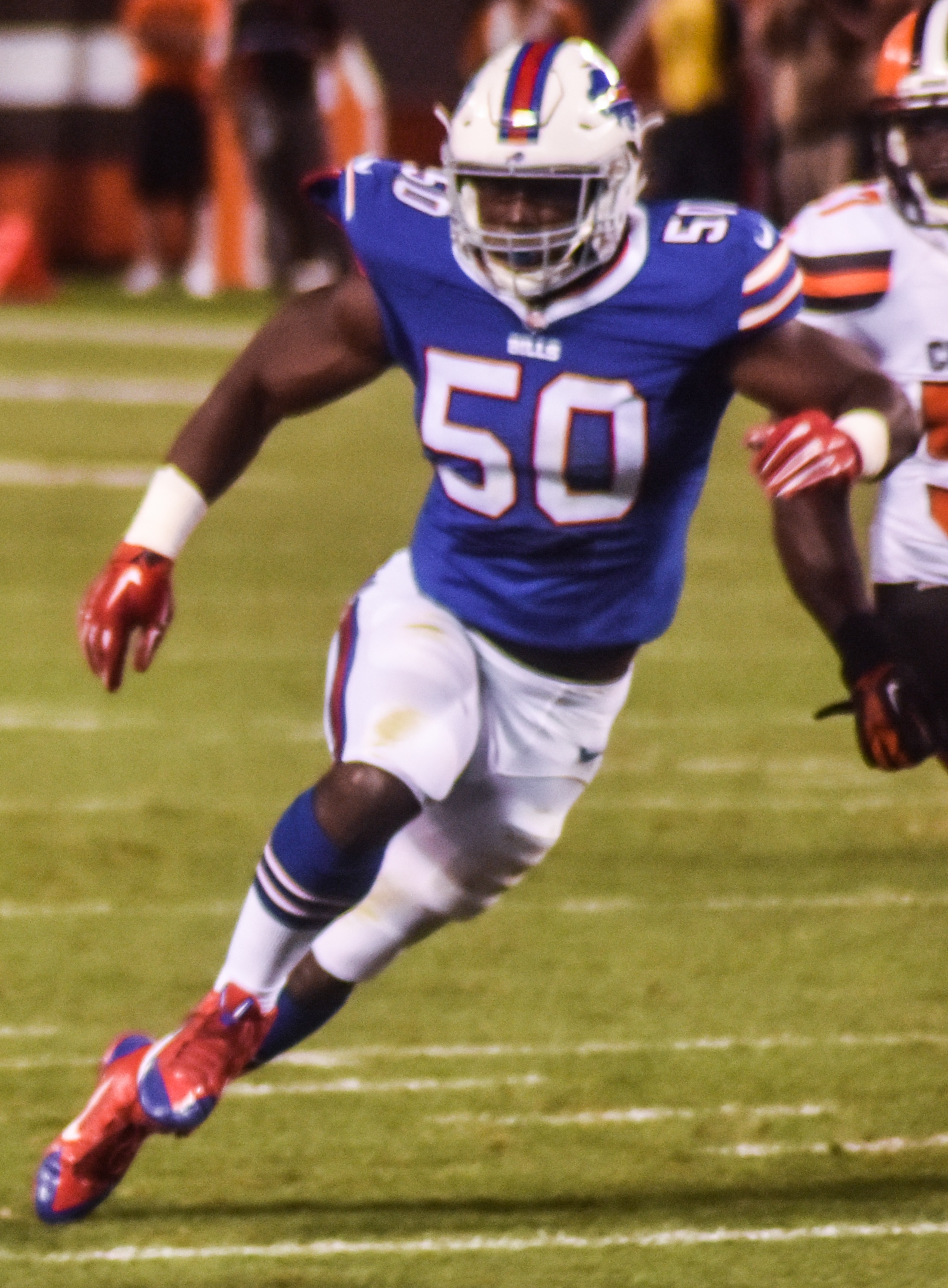 Browns vs. Bills